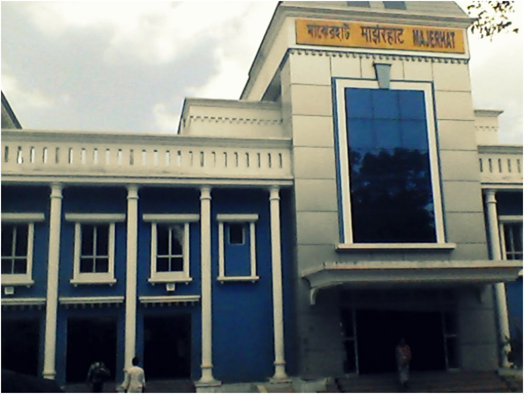 Majerhat Railway Station, New Alipore, South 24 Parganas, Kolkata-53